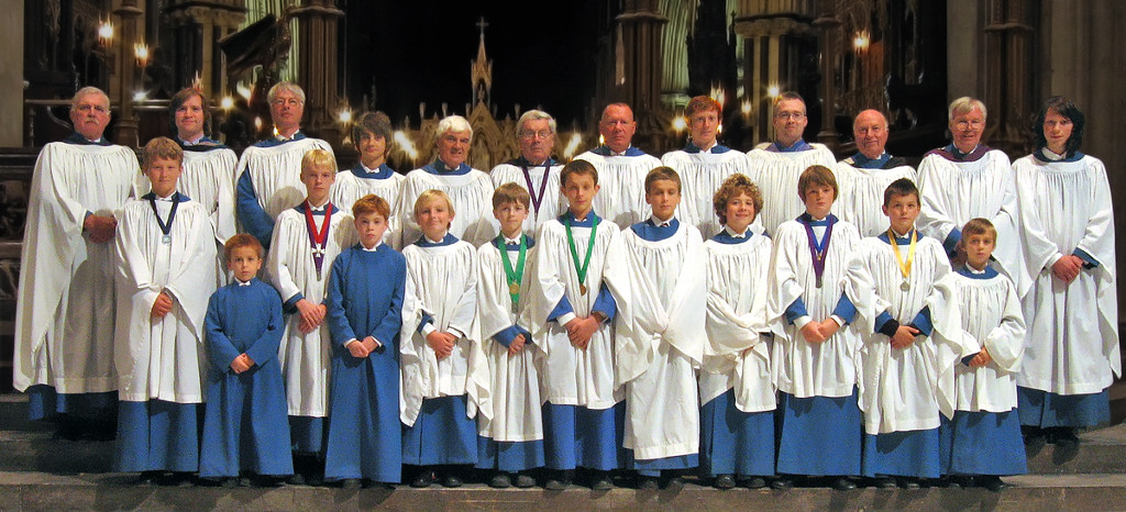 Photograph of the Worcester Cathedral Voluntary Choir on the Nave steps of Worcester Cathedral in October 2010.